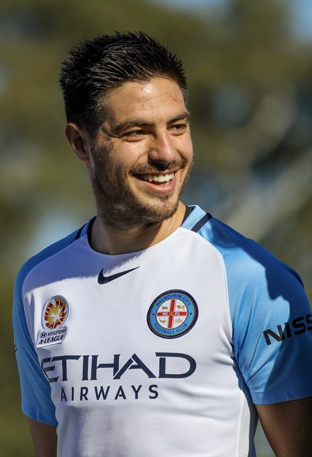 Bruno Fornaroli during the 2016/17 Home Kit Reveal